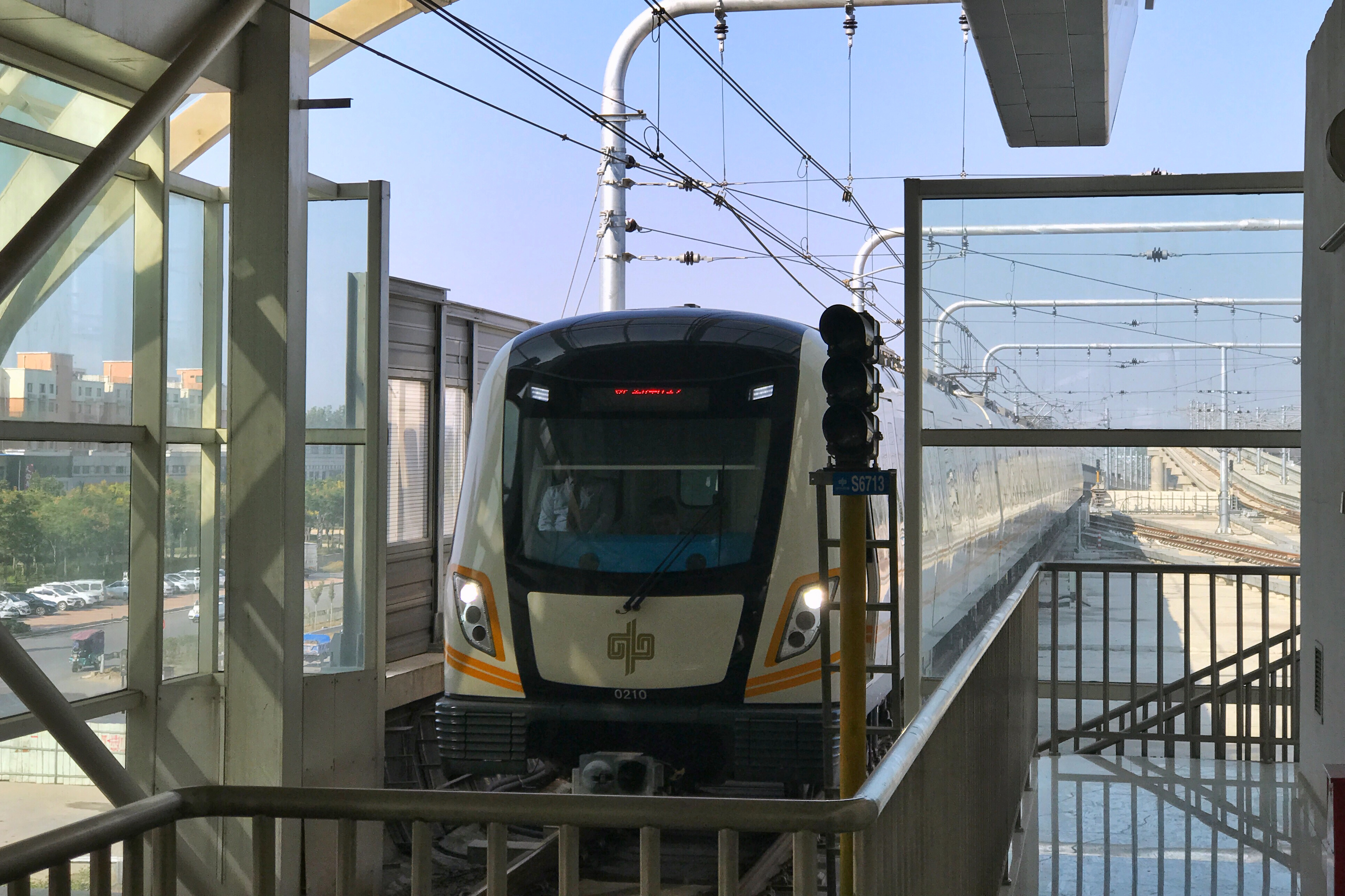 Trainset 0210 of Zhengzhou Metro running on Chengjiao line approaching Mengzhuang station